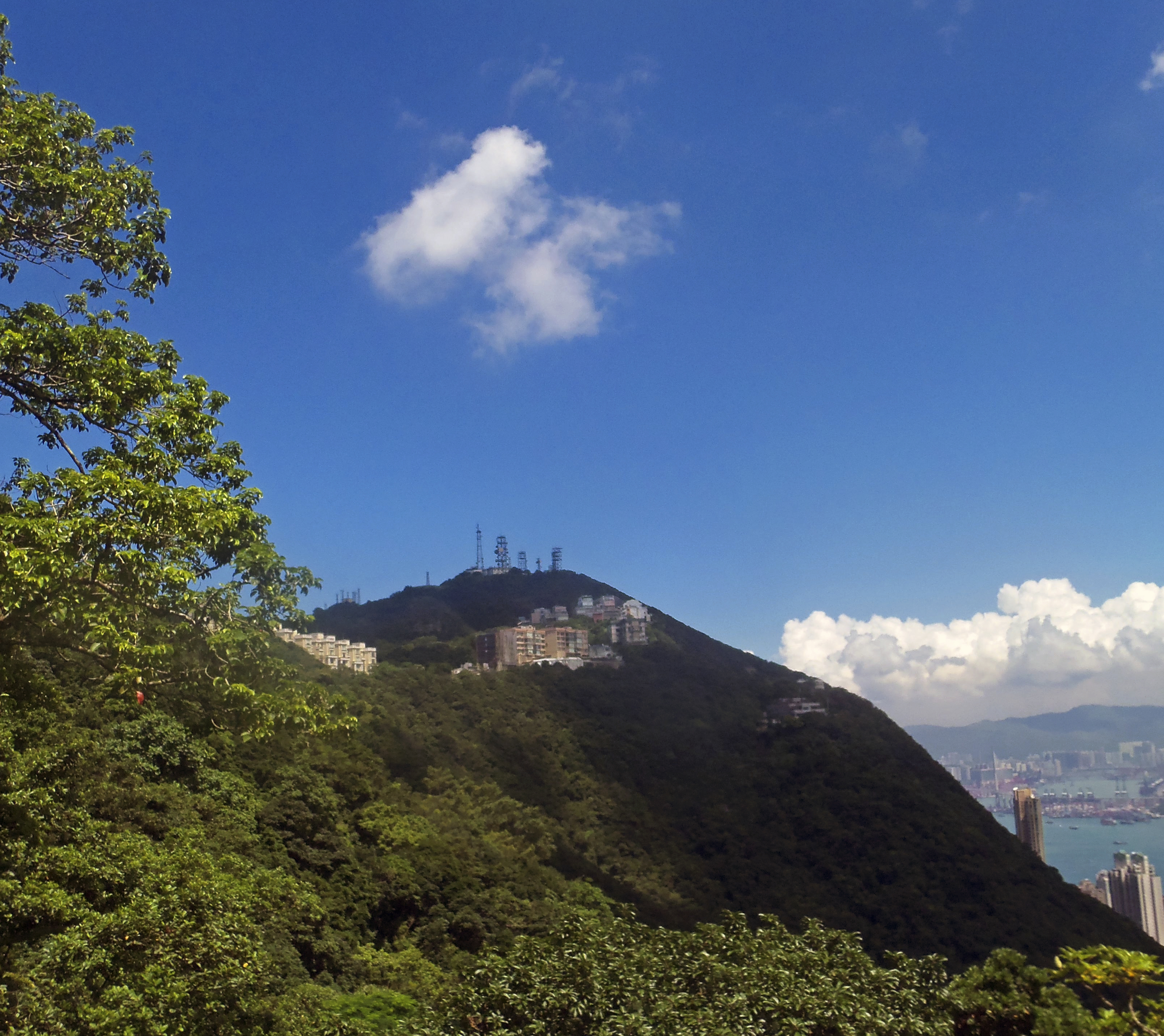 View of Victoria Peak summit from Findlay Road below Victoria Gap